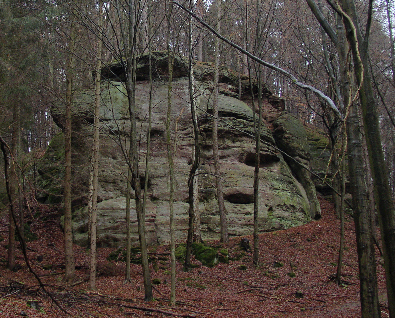 Rocks in Gleichen in Lower Saxony, Germany